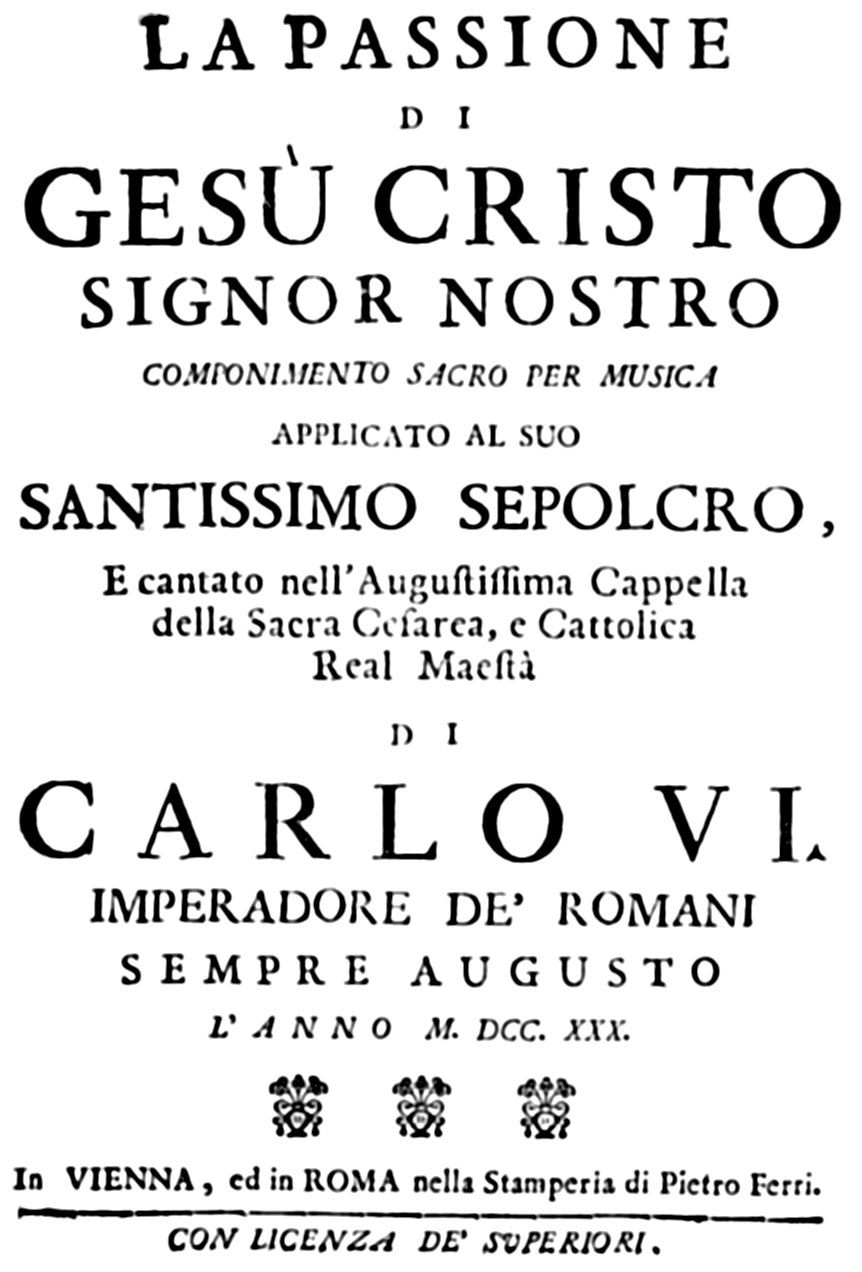 Antonio Caldara - La passione - titlepage of the libretto - Vienna 1730